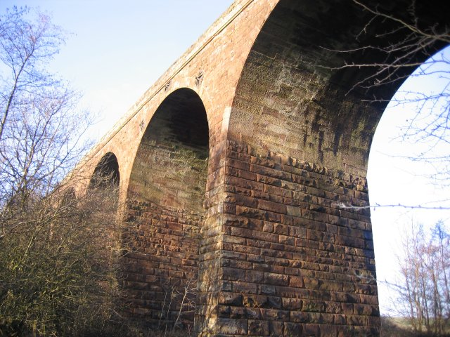 Keekle Viaduct. A real tangle in the undergrowth down here.